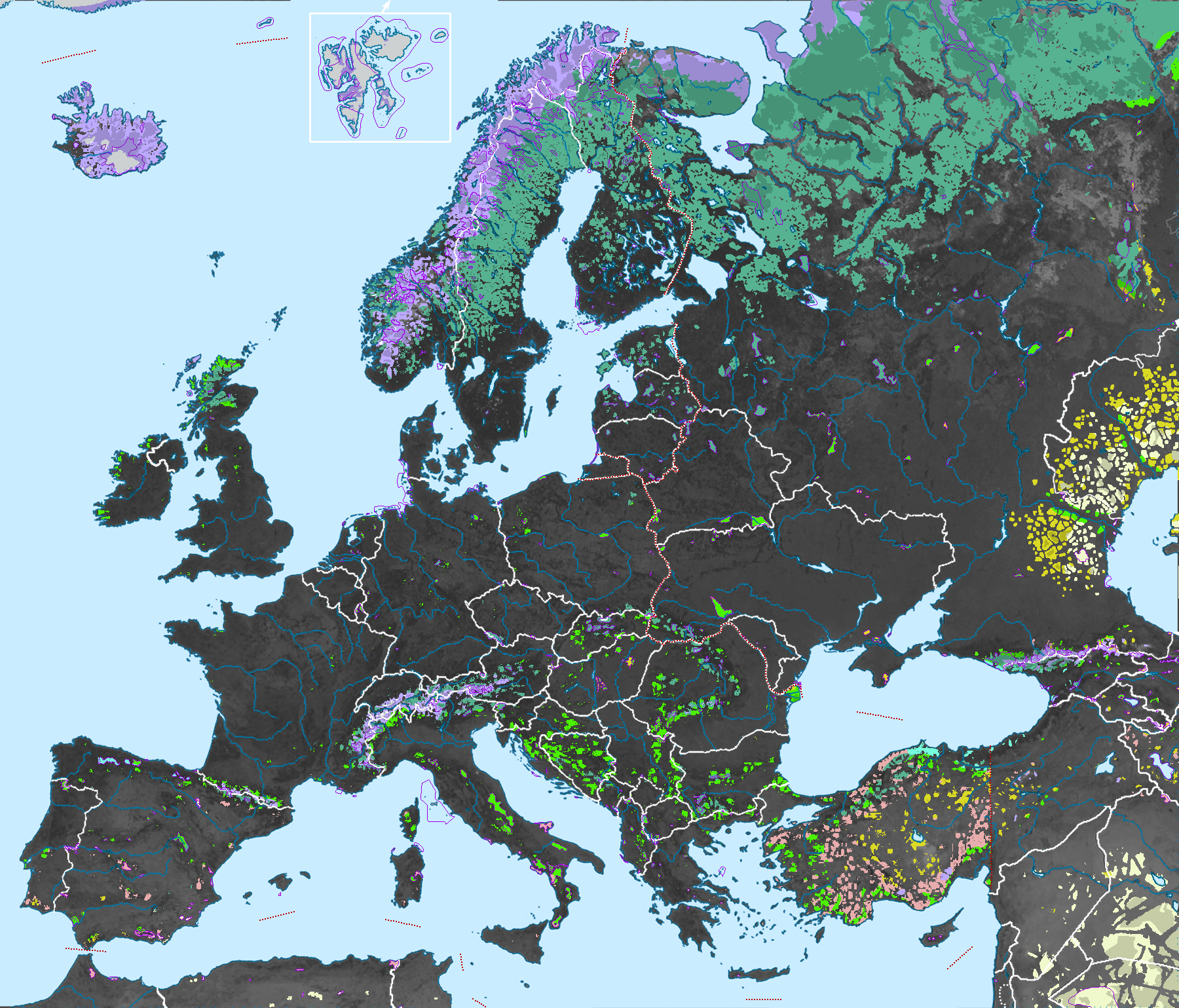 "Last of the wild"-regions of Europe at the beginning of the 21st century with nature protected areas according to the IUCN categories Ia (strict nature reserve), Ib (wilderness area) and II (national park) „Wild Areas“ (The 10% wildest cells of Europe / „Last of the wild“) Eisschilde, Gletscher und Kältewüsten Tundren, Waldtundren und alpine Matten Temperierte Nadel- und Mischwälder Temperierte Laubwälder Subtropische Feuchtwälder Subtropische Trockenwälder und Gebüschformationen Temperierte Steppen und Waldsteppen Wüsten und Halbwüsten „Wilderness“ (The 5% wildest cells of Europe / „most wild“)